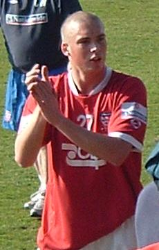 Richard Brodie (footballer), who plays for York City as striker. Brodie following York's 1–0 victory over Oxford United on 28 April 2007, which preceded the team's play-off games against Morecambe.